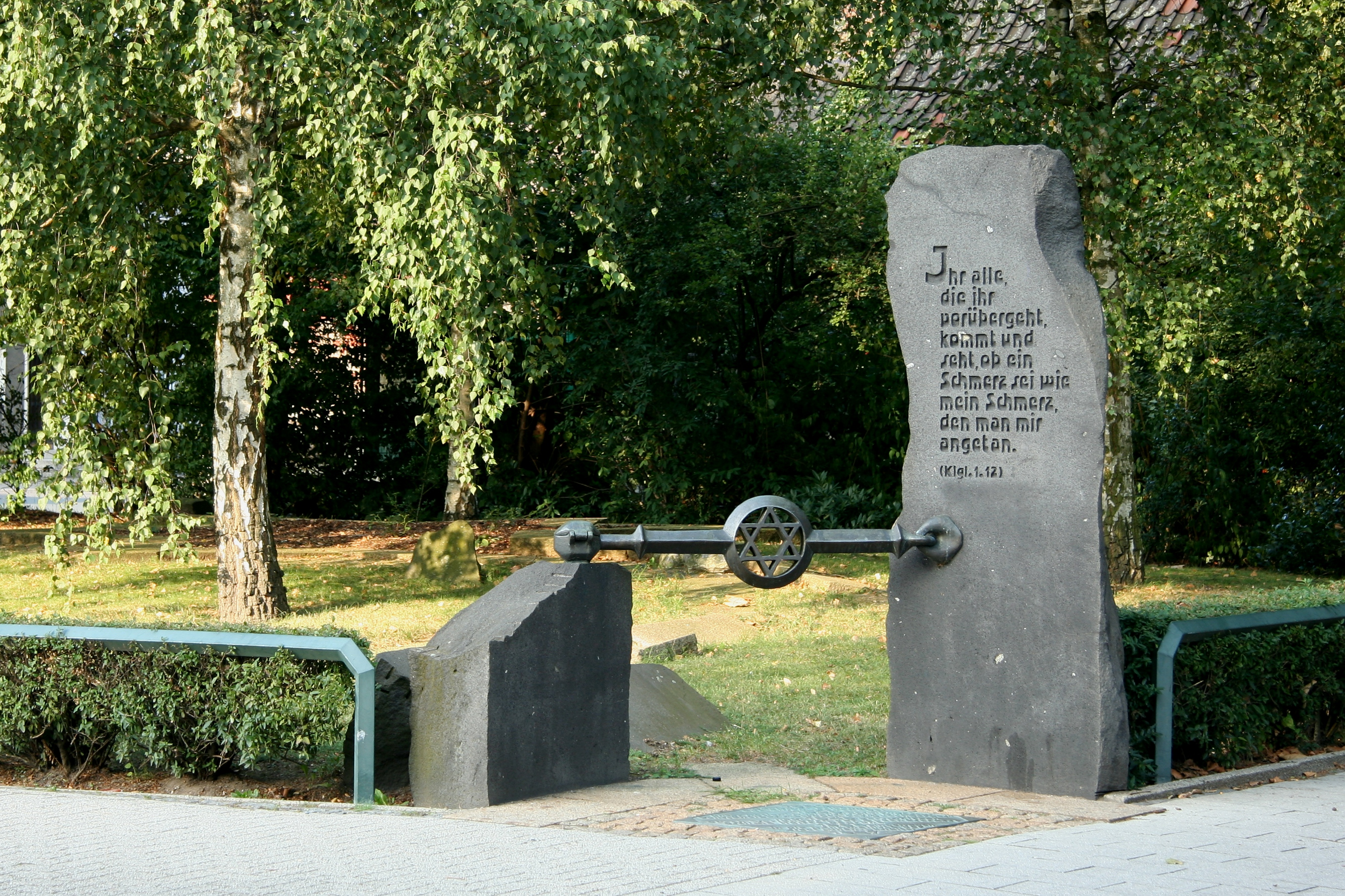 This is a photograph of an architectural monument.